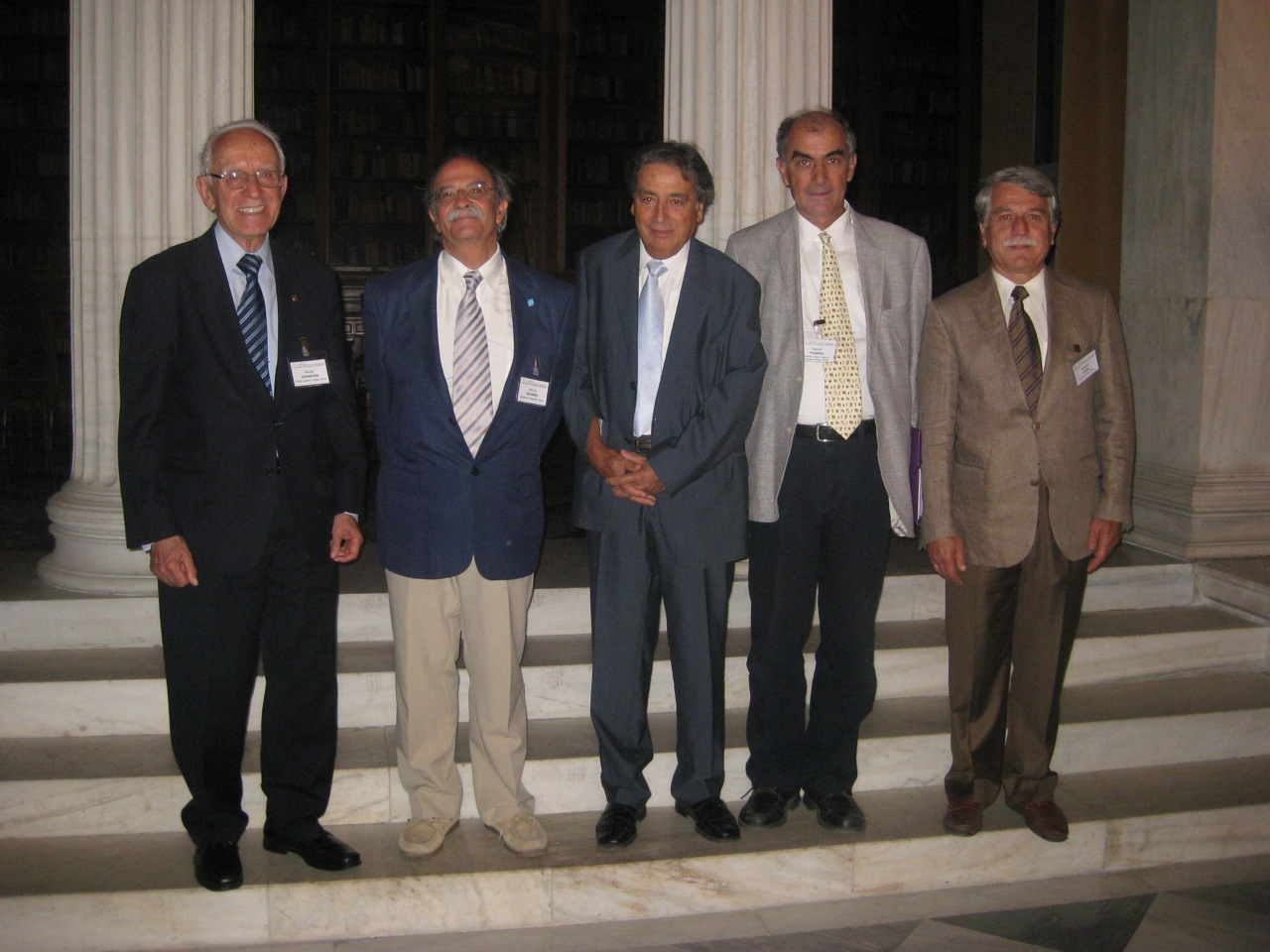 Photo of the first five Presidents of the Hellenic Astronomical Society (G. Contopoulos,J.H. Seiradakis, P. Laskarides, K. Tsinganos, N. Kylafis)